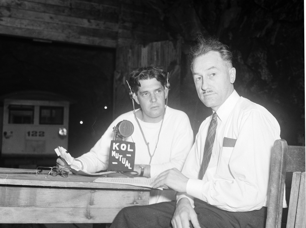 Announcer Dudley Williamson and Seattle City Light Superintendent Eugene Hoffman broadcasting The Romance of Power live from the Skagit on KOL, Seattle, Washington, U.S., 1939. The broadcasts went out nationally on the Mutual Broadcasting System. Item 18553, City Light Photographic Negatives (Record Series 1204-01), Seattle Municipal Archives.